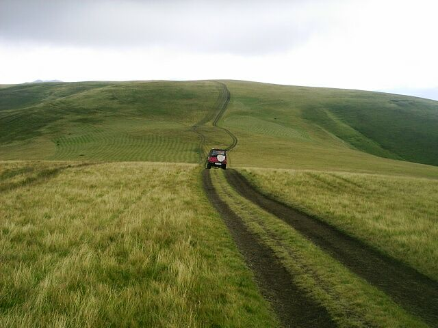 Bitovnja mountains in Bosnia and Herzegovina